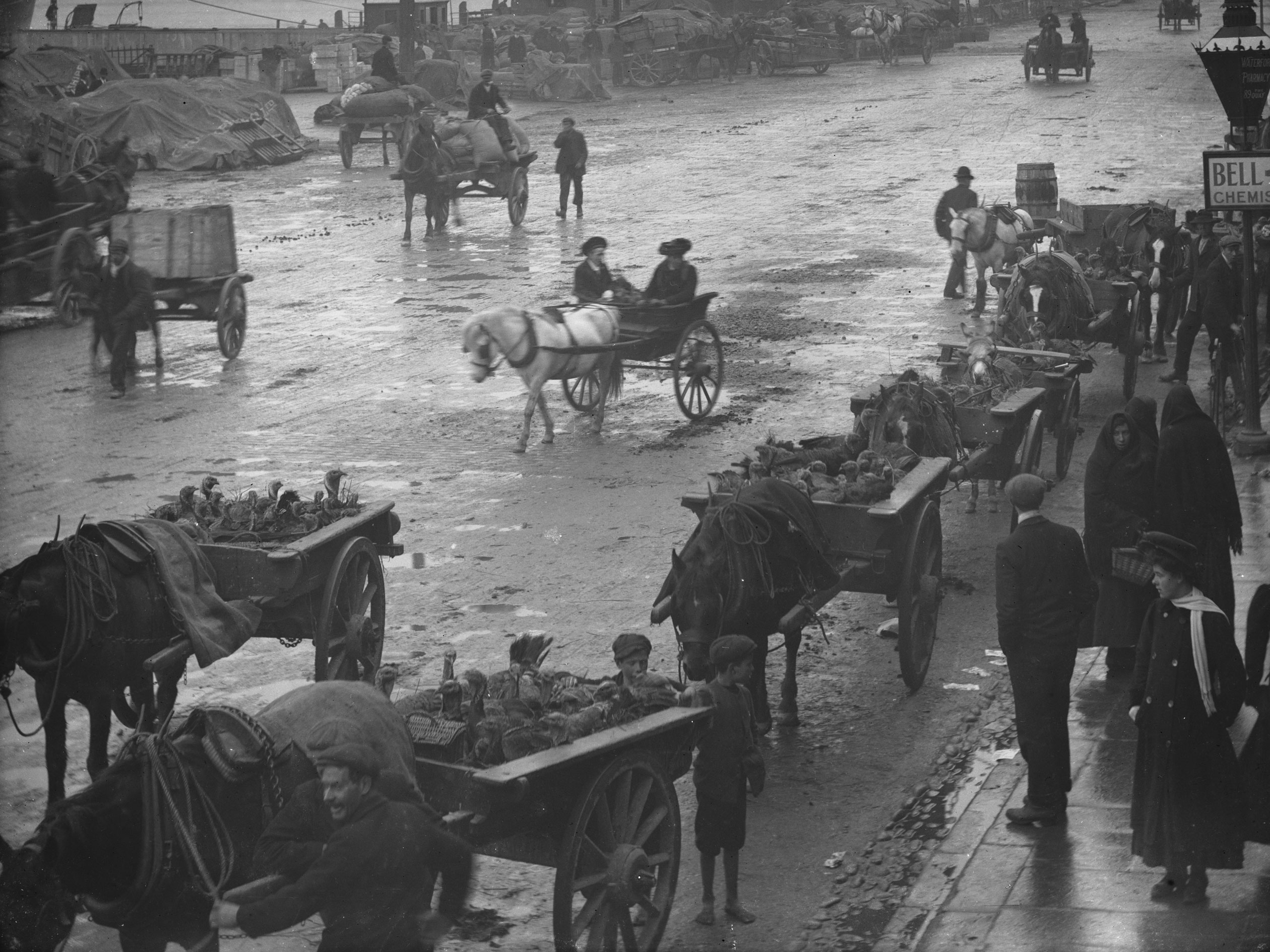 Carts full of turkeys queueing on the quays in Waterford city, at the foot of Conduit Lane, perhaps on the way to Flynn's Poultry Stores. This shot was taken just outside Bell's Chemists at 80 Meagher's Quay. Wonder what mechanism was used to stop them flapping their way to freedom... Date: 16 December 1907 NLI Ref.: PWP552